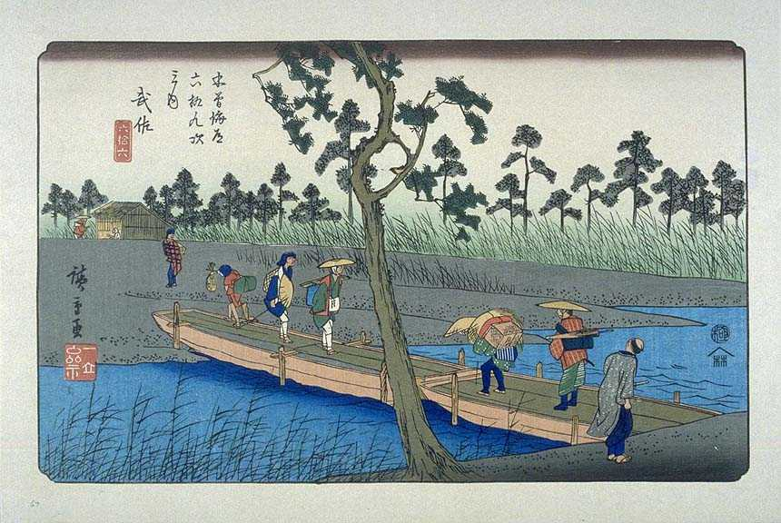 Musa on the Kisokaido, ukiyo-e prints by Hiroshige